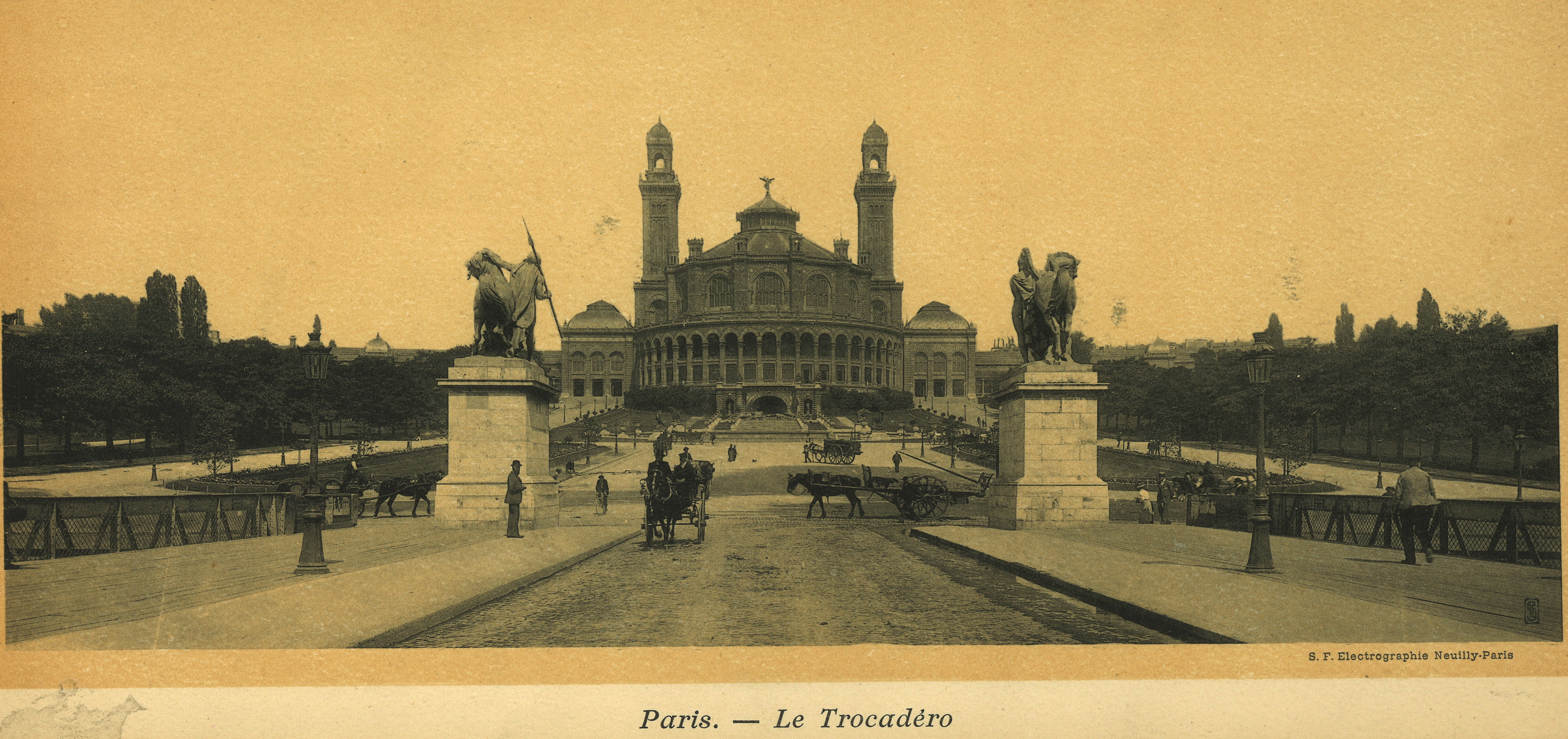 Turn of the century photo with horse and buggy